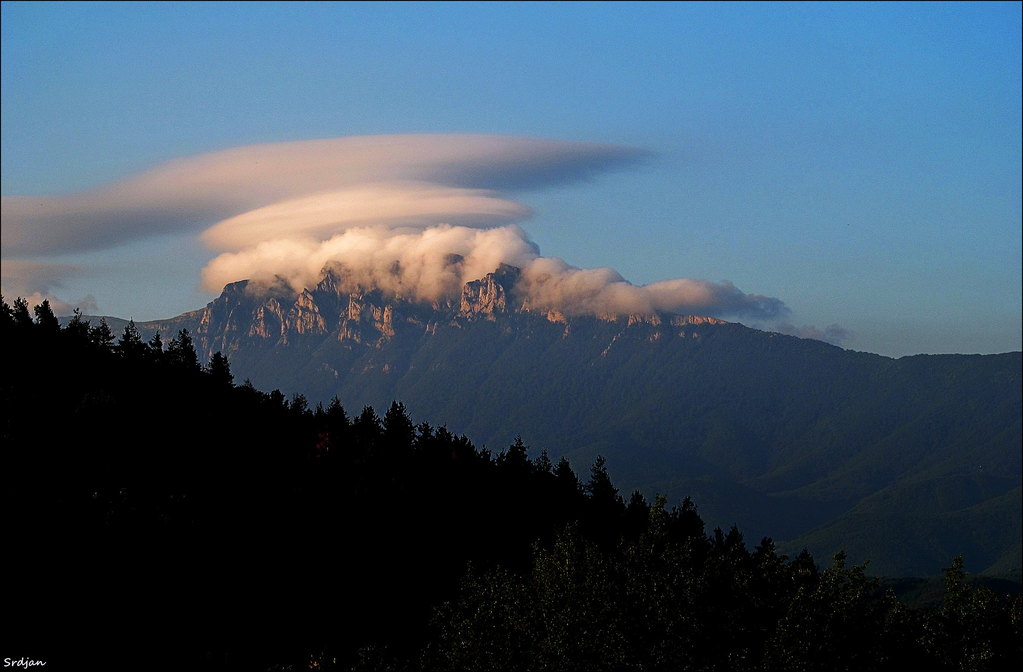 Suva planina, Serbia